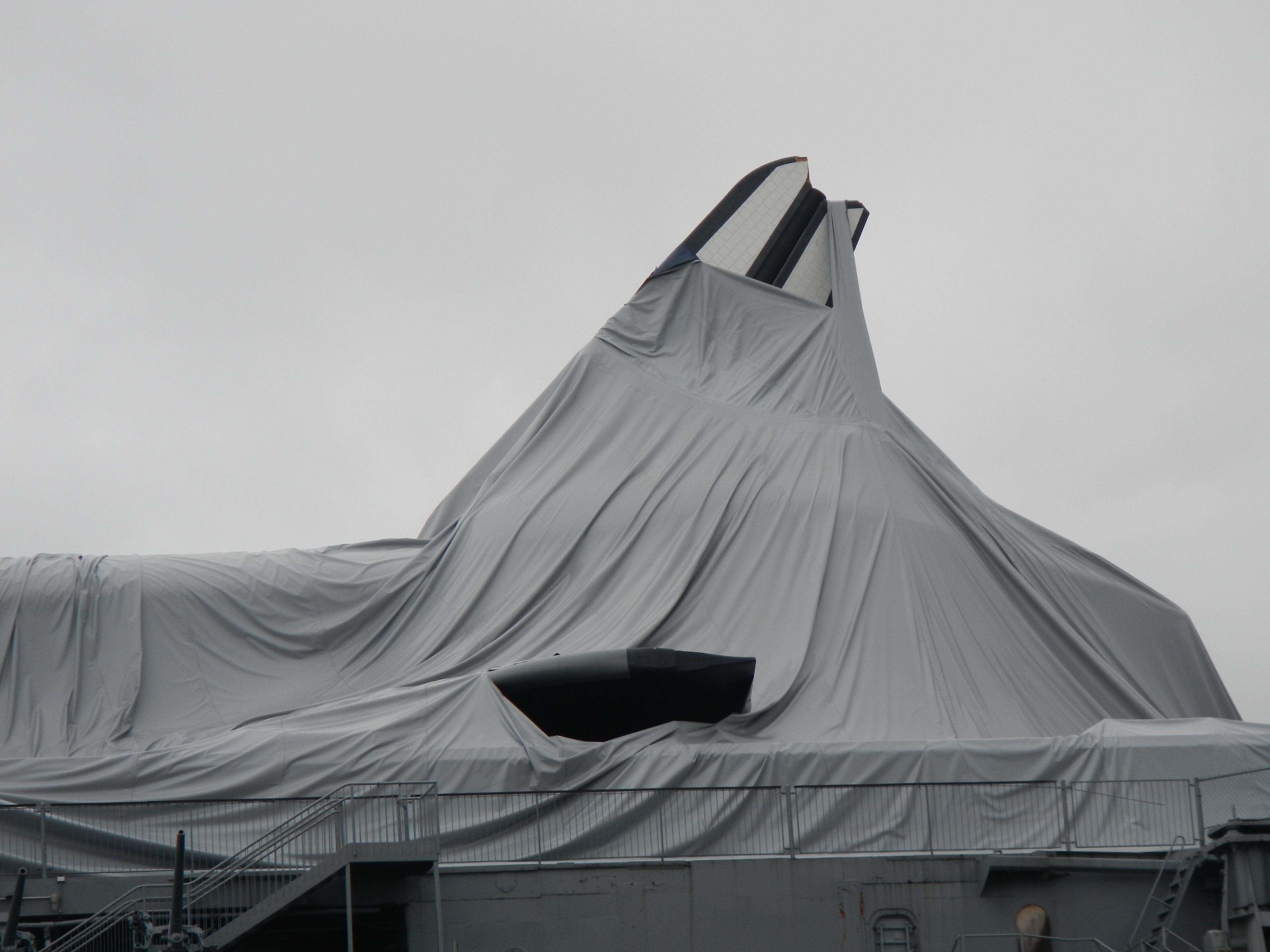 Looking northeast at tail apparently damaged by hurricane.